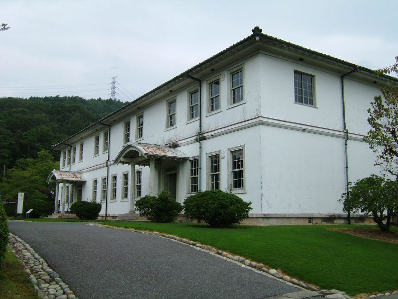 Barrack of the Sixth Infantry Regiment. Originally from Nagoya Built in 1873 From the Meiji Mura village museum, Japan.